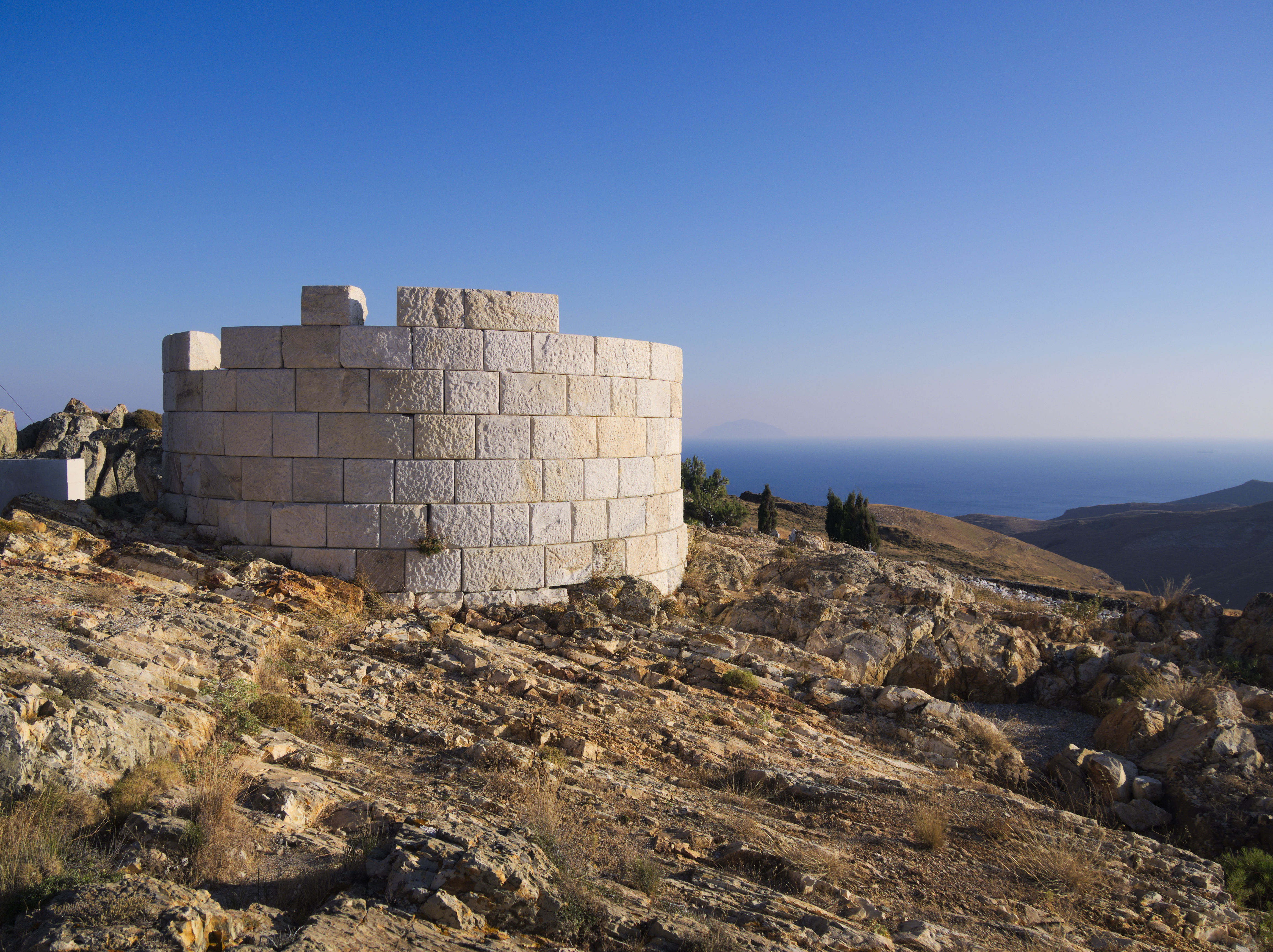 The white tower of Serifos, to the right is a small water tank.